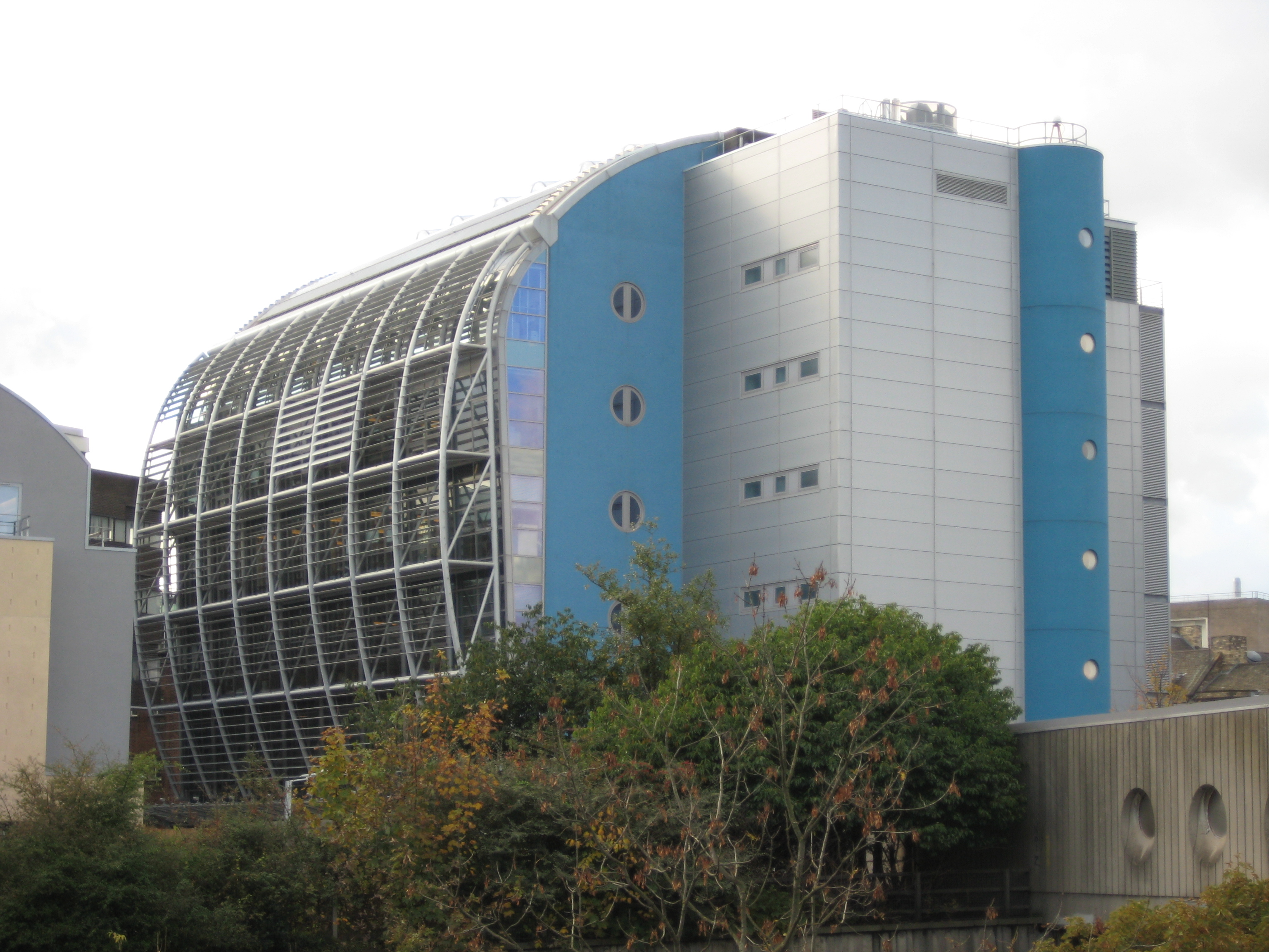 Source:Xtrememachineuk (talk) 23:39, 2 November 2008 (UTC)